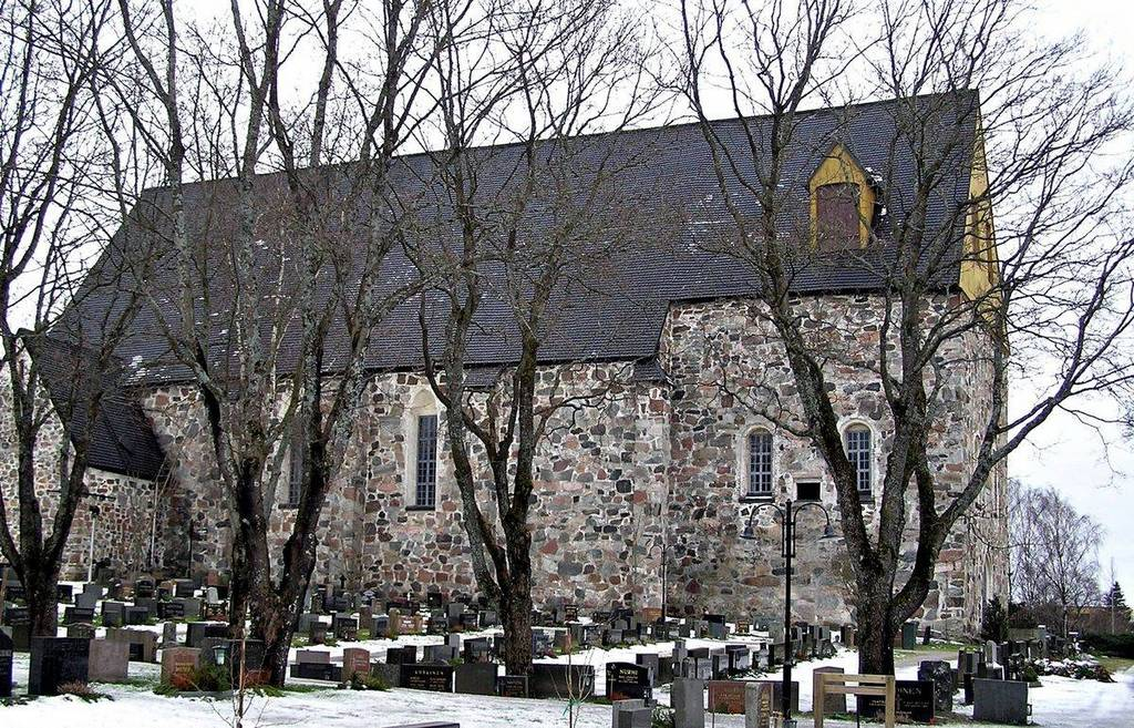 Mynämäki Church in Mynämäki, Finland